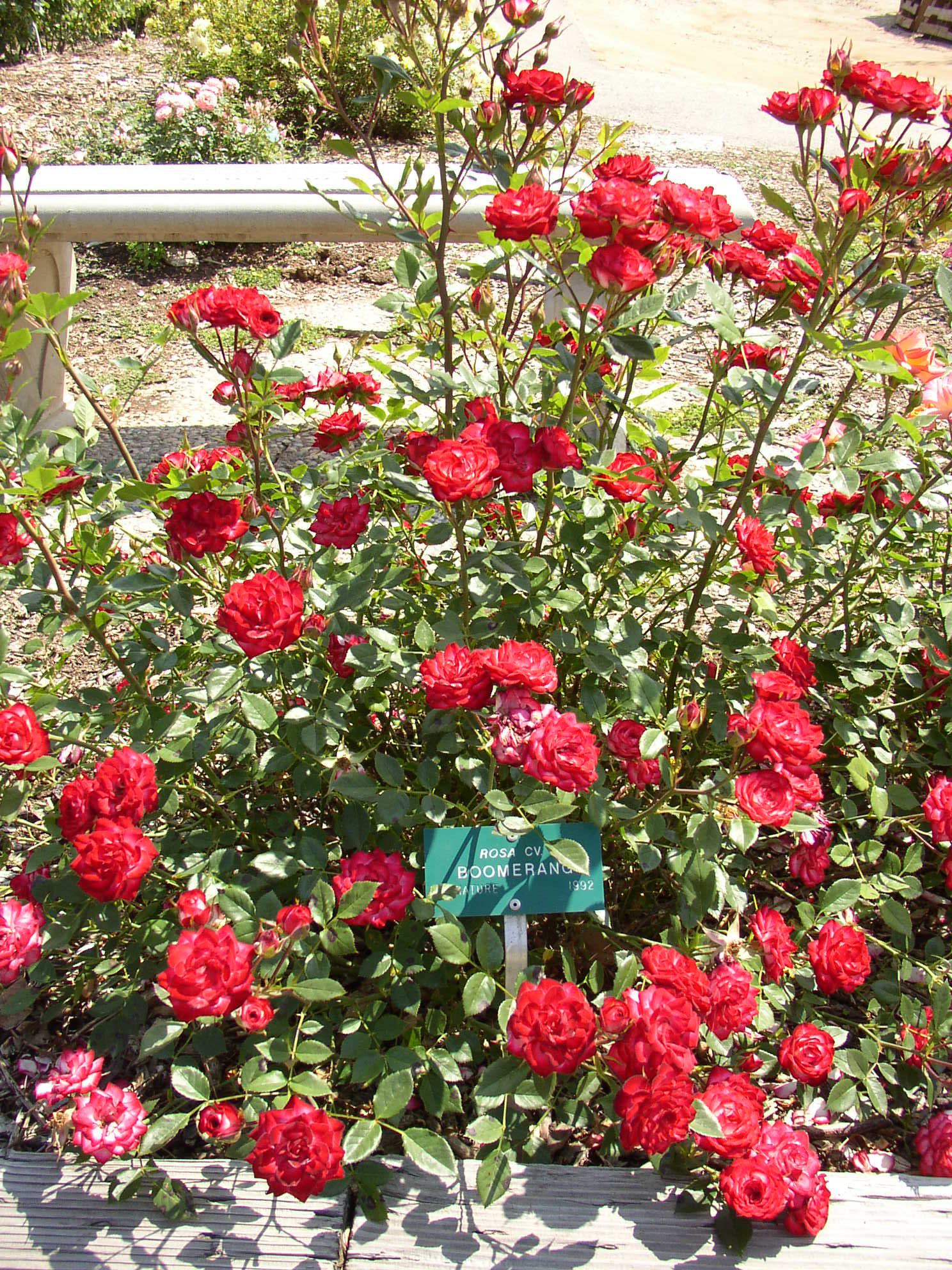 Photographed by AllyUnion at University of California, Riverside's Botanical Gardens.